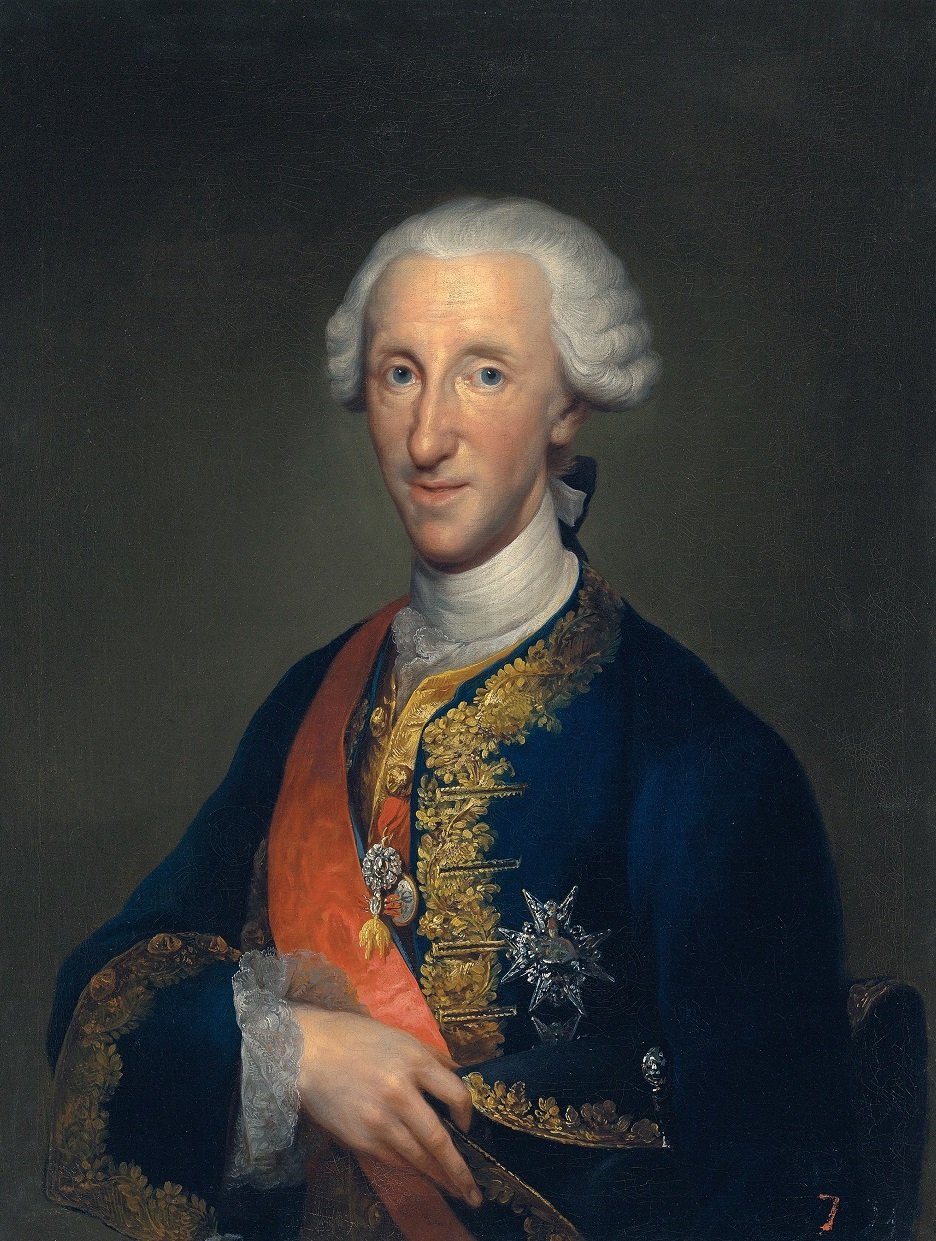 Don Luis de Borbón, Infante of Spain (1727-1785), in court dress, with the insignia of the Orders of the Golden Fleece, St. Januarius and Saint-Esprit